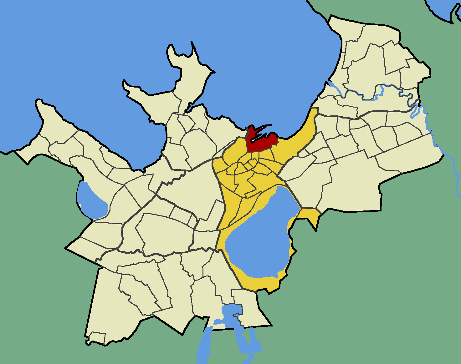 Map of Tallinn (Estonia) with borders of the quarters, Kesklinn district and Sadama quarter emphasised